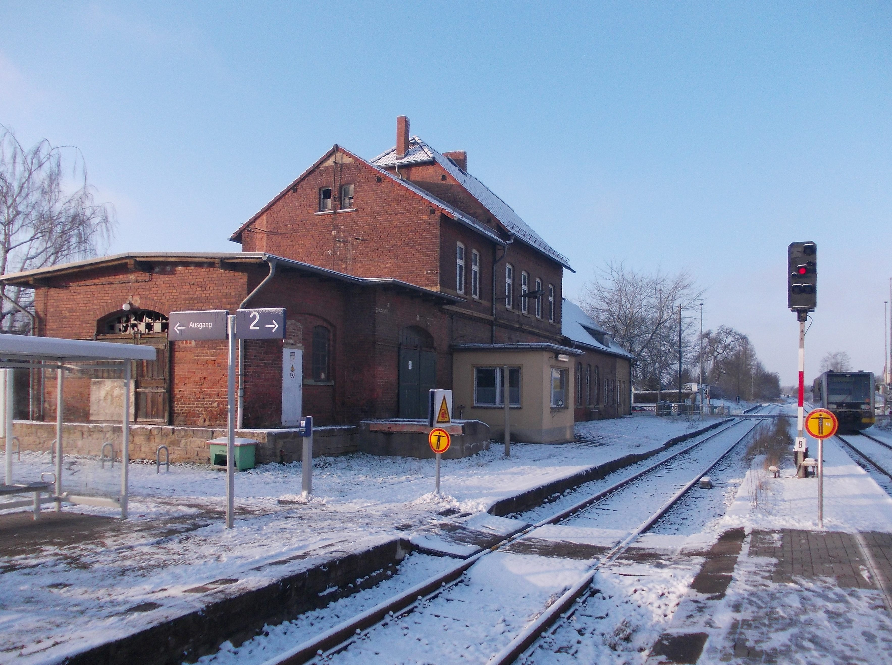 Theissen train station (Zeitz, district: Burgenlandkreis, Saxony-Anhalt)